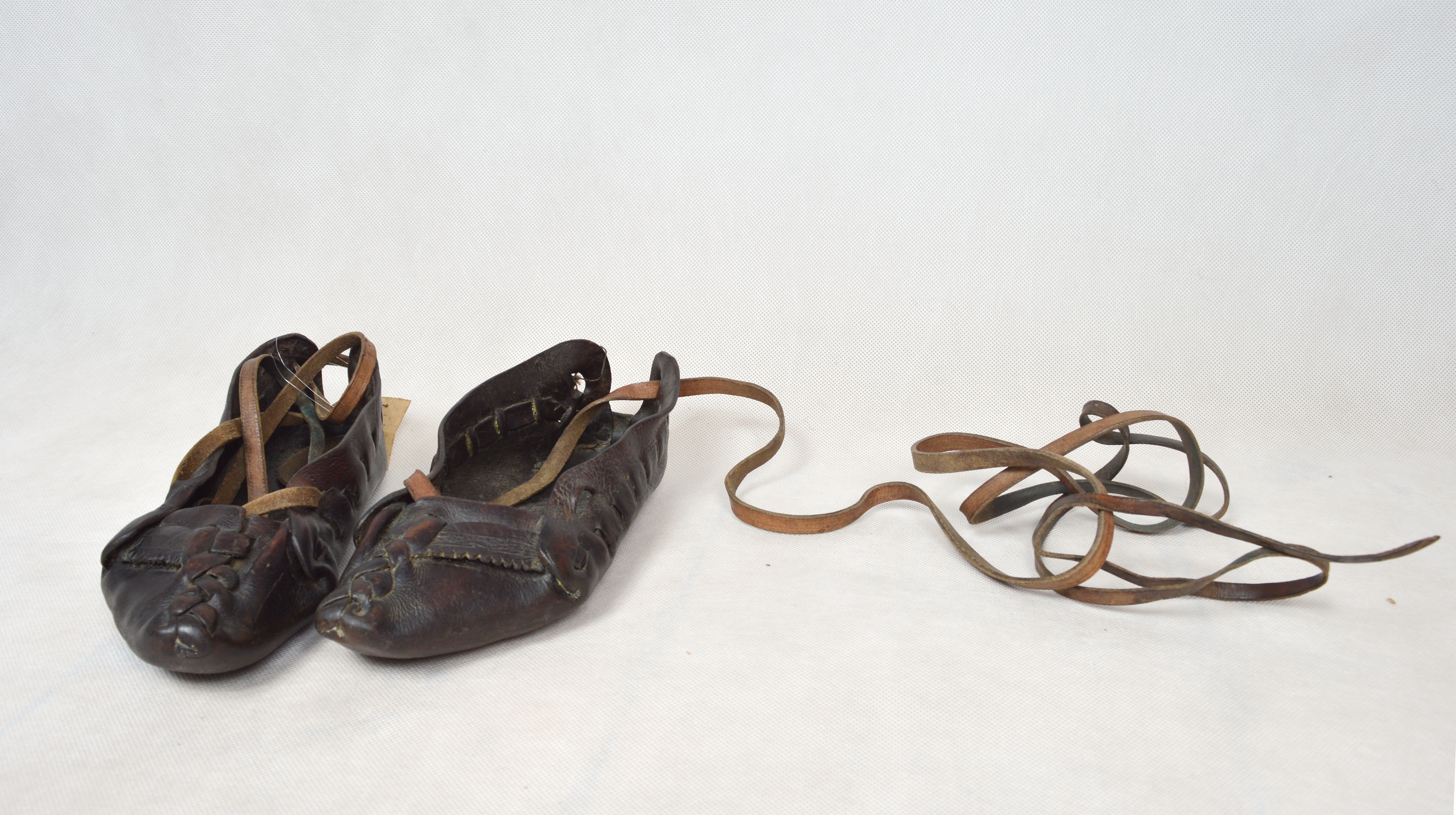 Kierpce shoes, early 19th century, collection of the Tatra Museum in Zakopane